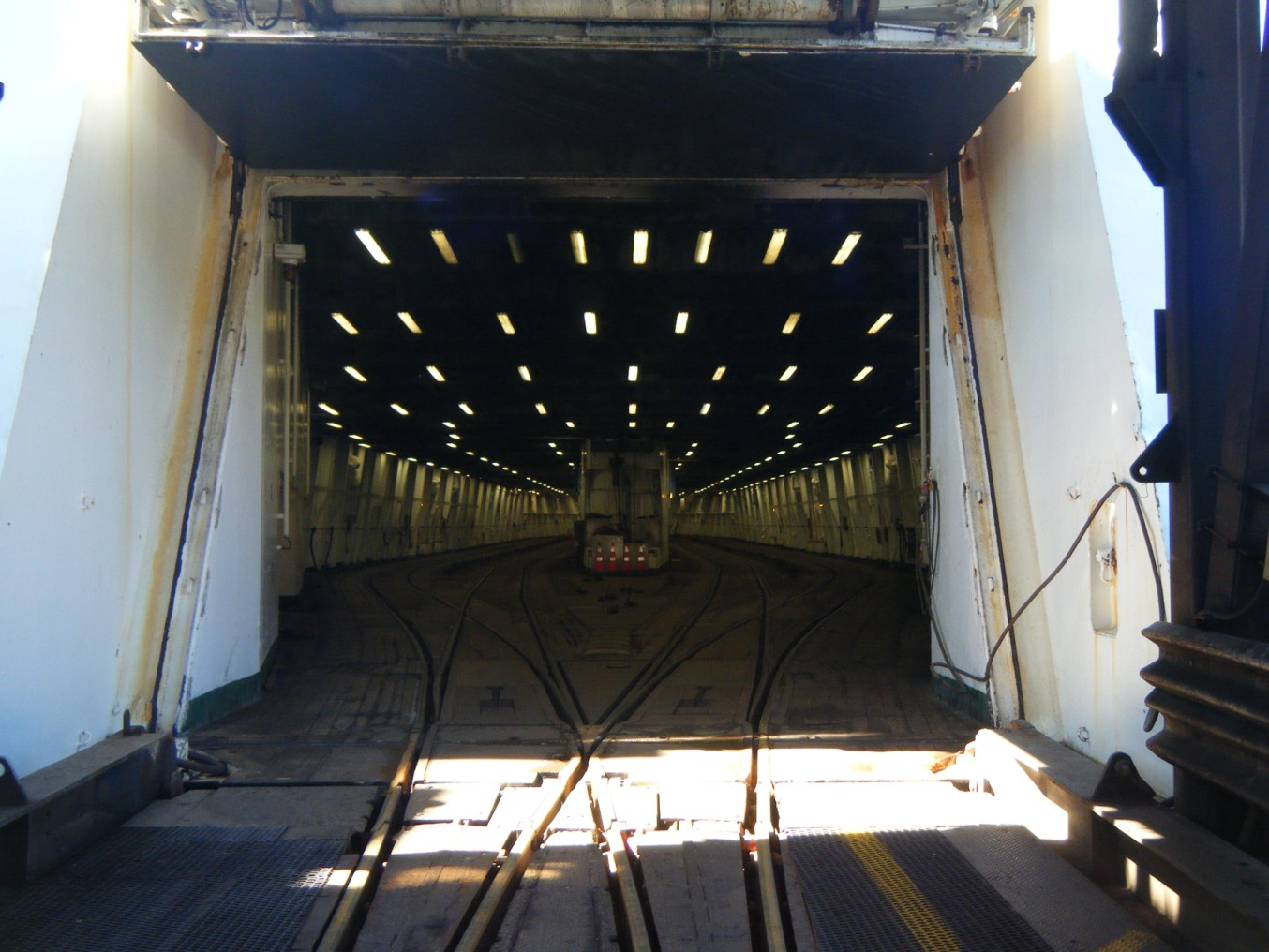 Raildeck of the ferry Arahura, connected with a linkspan in Wellington, New Zealand.